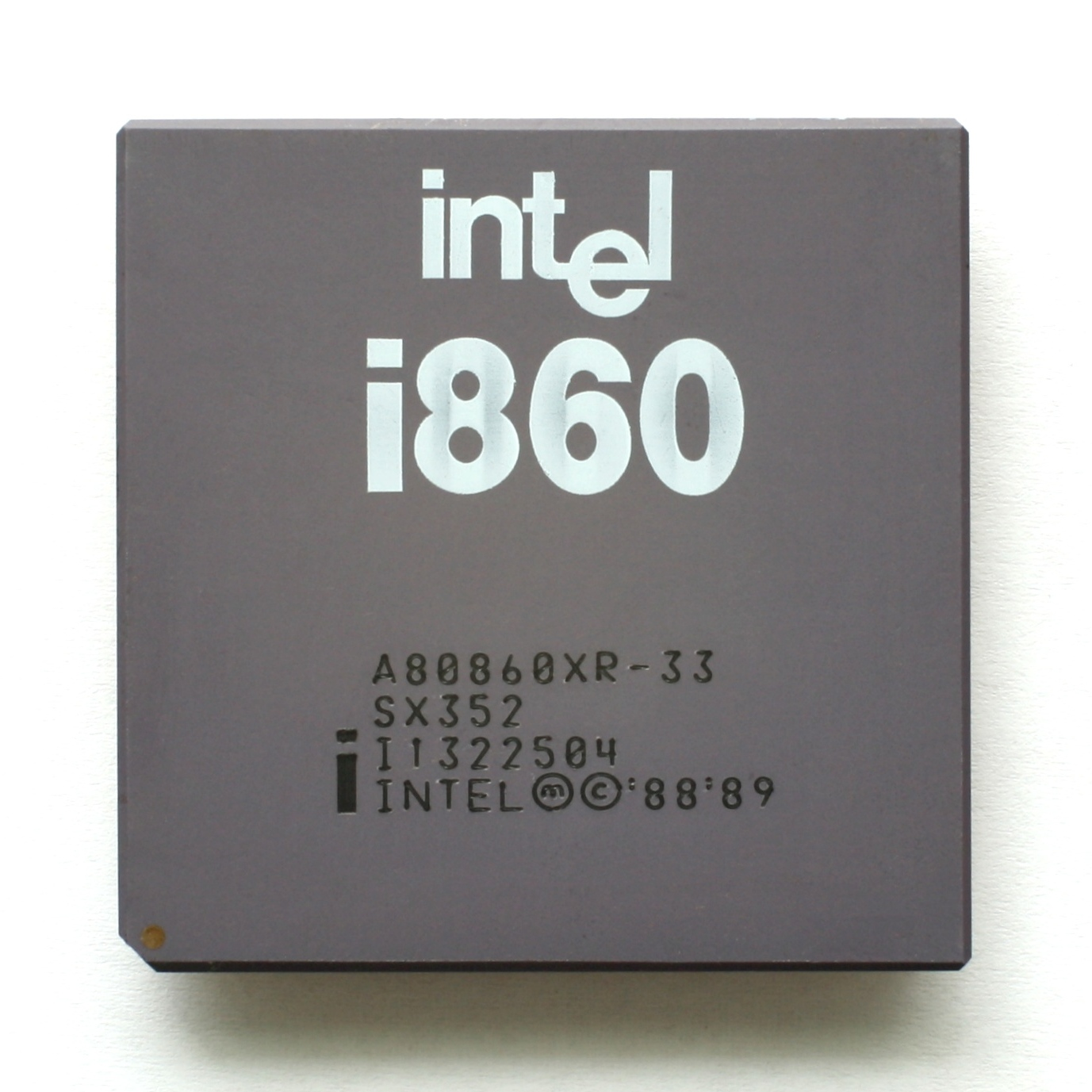 CPU Intel i860XR